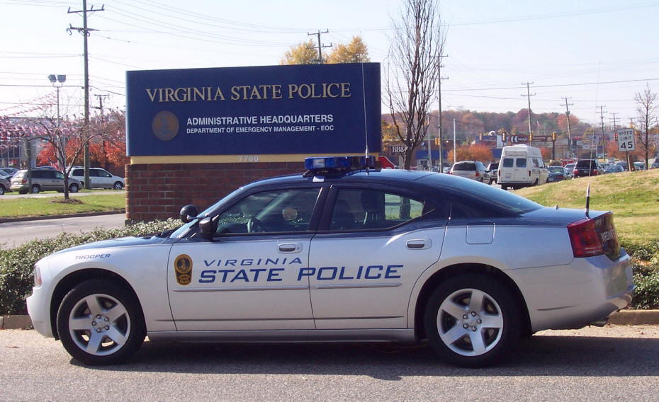 VSP 2006 Dodge Charger in front of VSP Administrative Headquarters